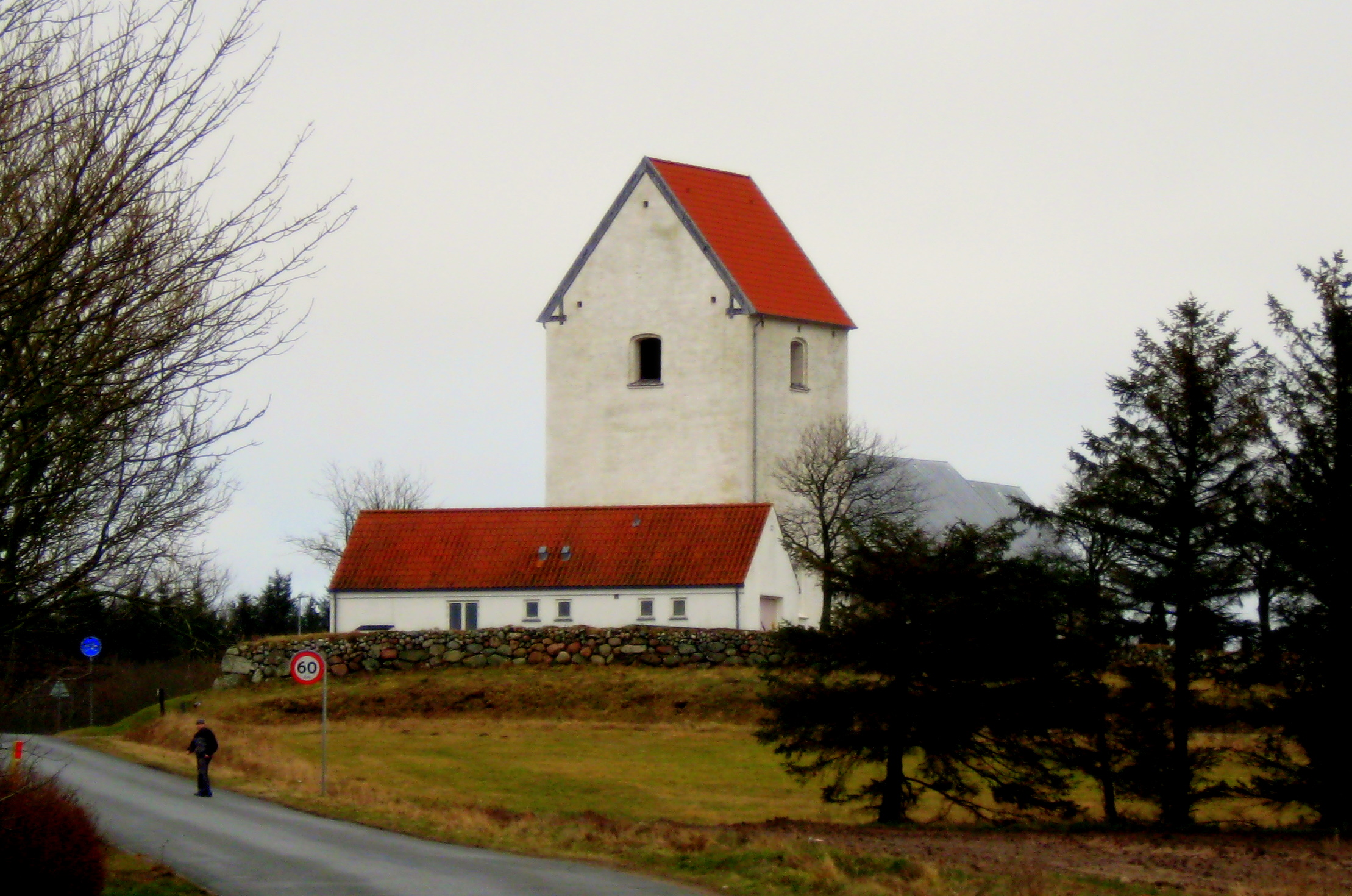 Church in Horne, Northern Denmark @ 57° 33' 34.17" N 9° 58' 41.30" E